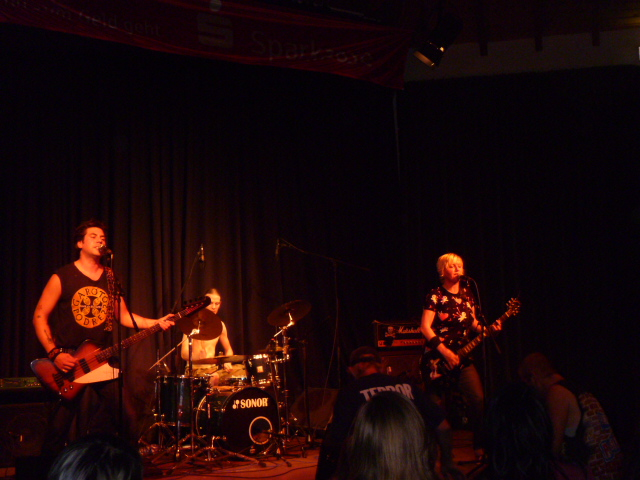 Bambix live at the Rock 'em Festival (Stummsche Reithalle, Neunkirchen (Saar)